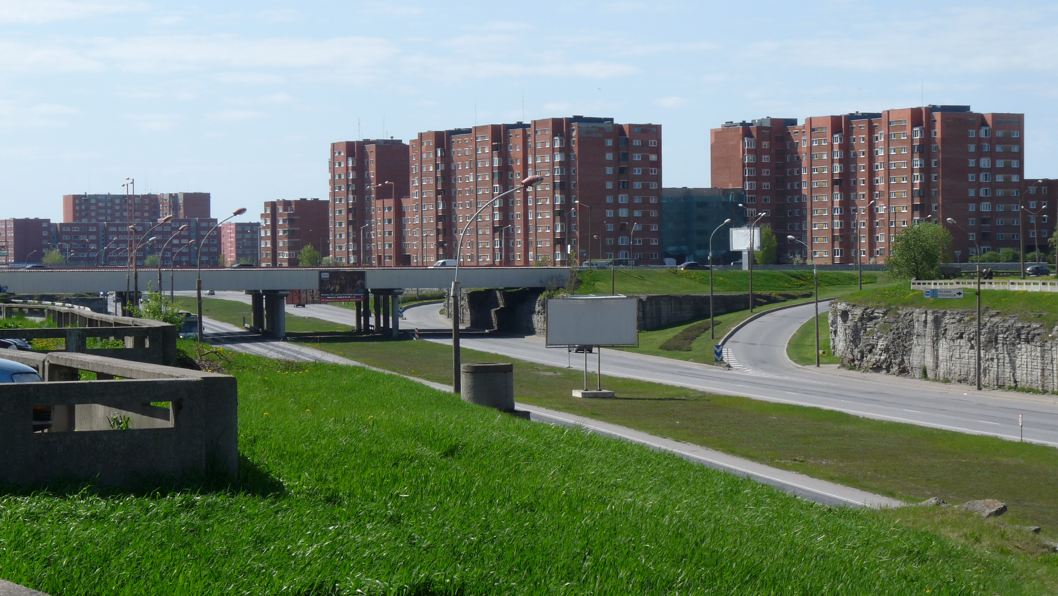 Laagna street and Smuuli bridge in Tallinn